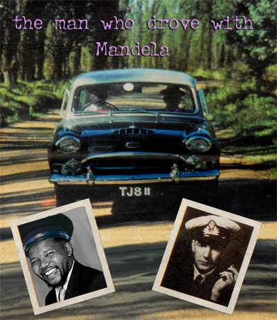 The man who drove with Mandela, directed and produced by Greta Schiller, examines the life of gay activist Cecil Williams arrested with Nelson Mandela on August 5, 1962.